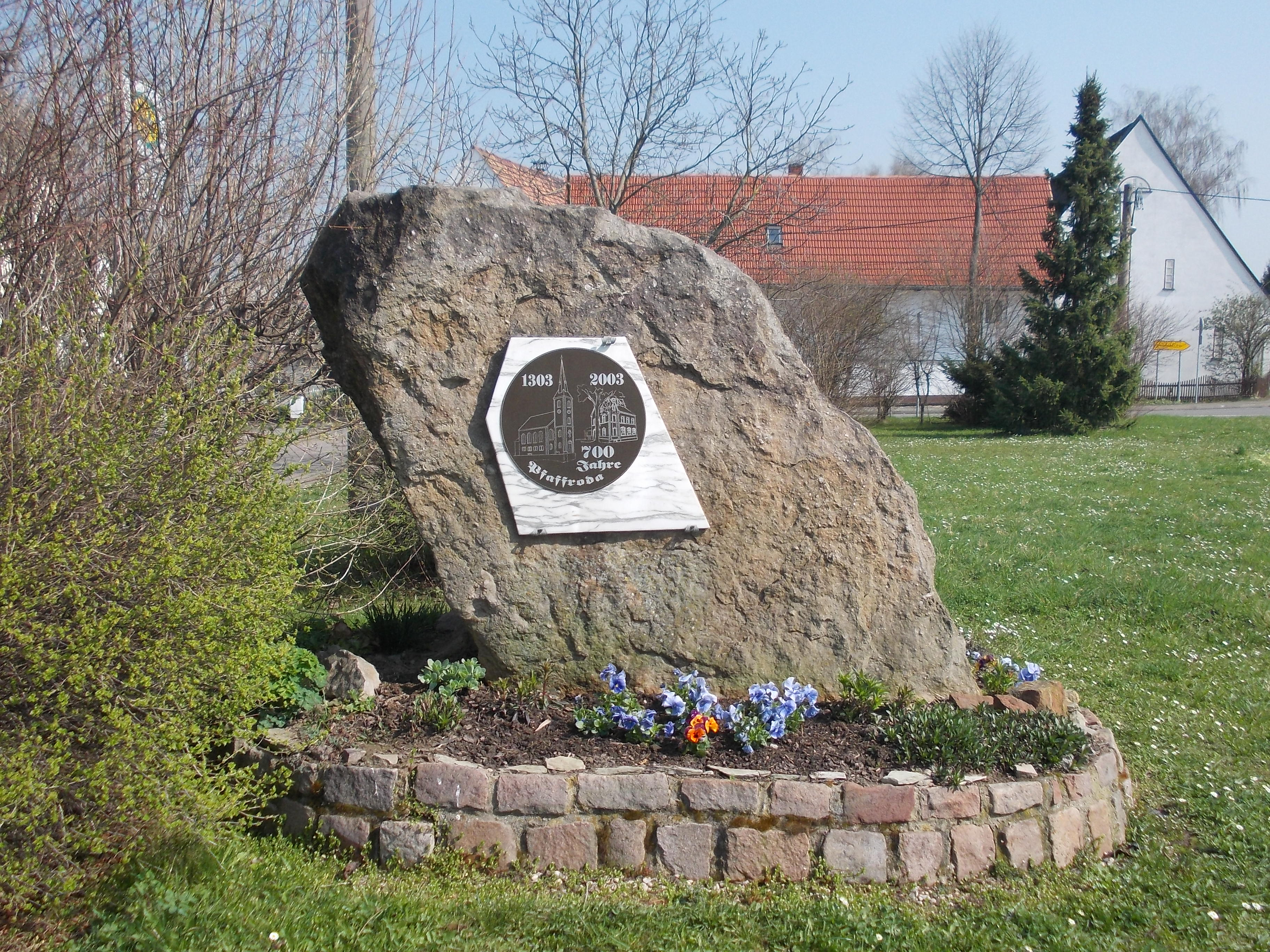 Memorial to the 700th anniversary of the village in Pfaffroda (Schönberg, Zwickau district, Saxony)